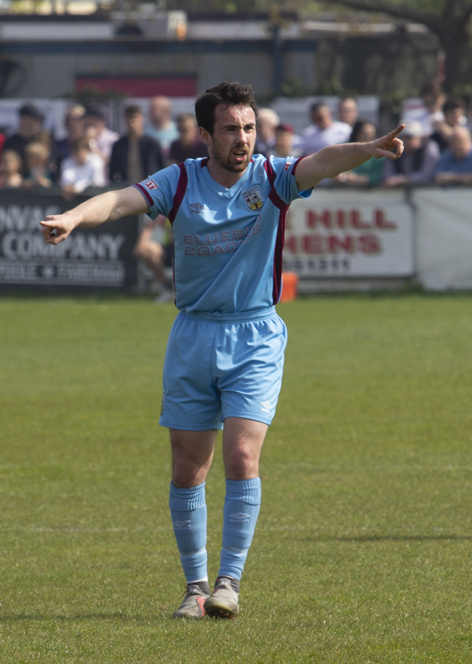 Cameron Murray playing for Weymouth against Poole Town in April 2019